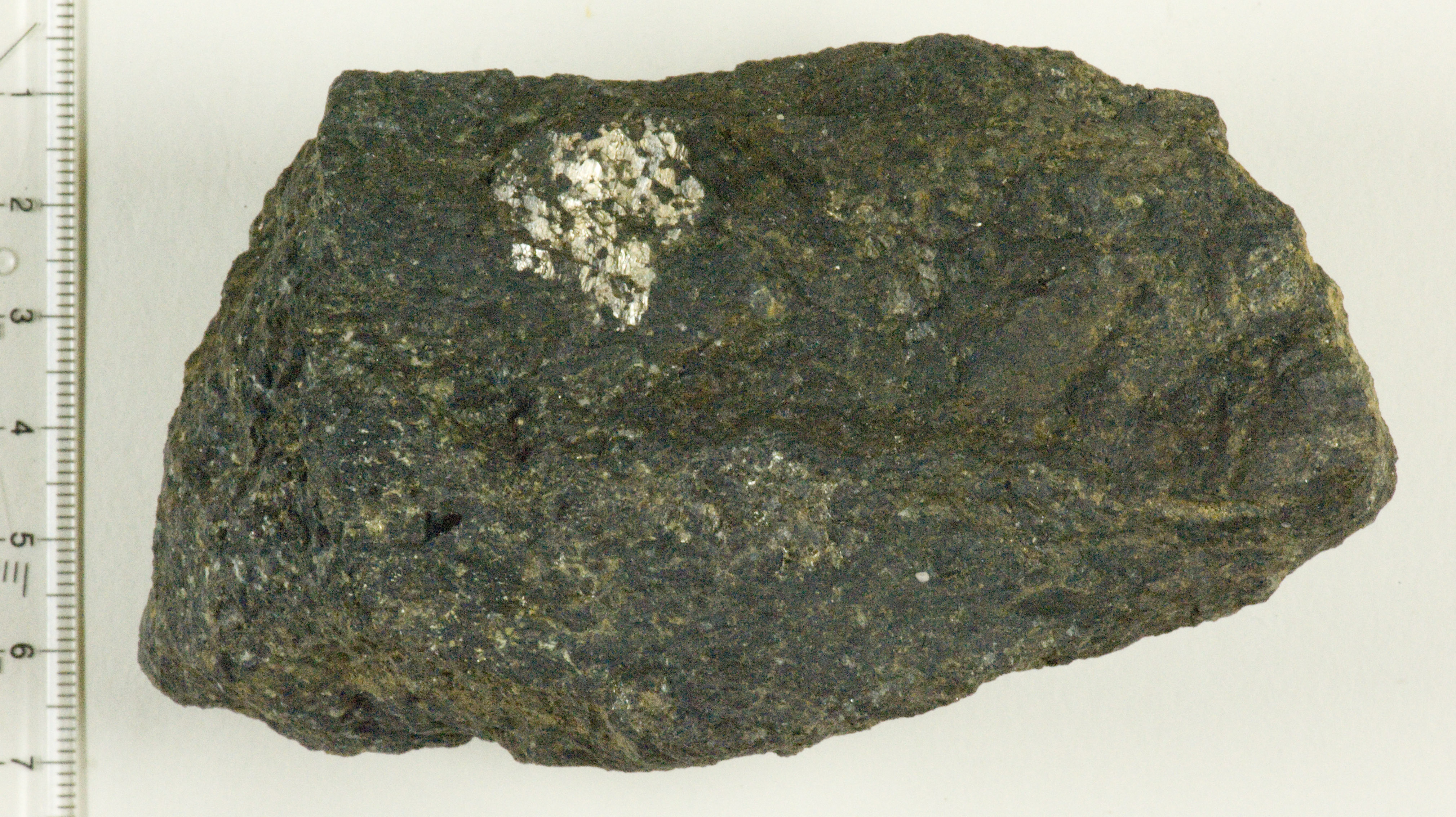 Bastite, pseudomorphose from Serpentine to Enstatite; Kohlebornkehre, Harz